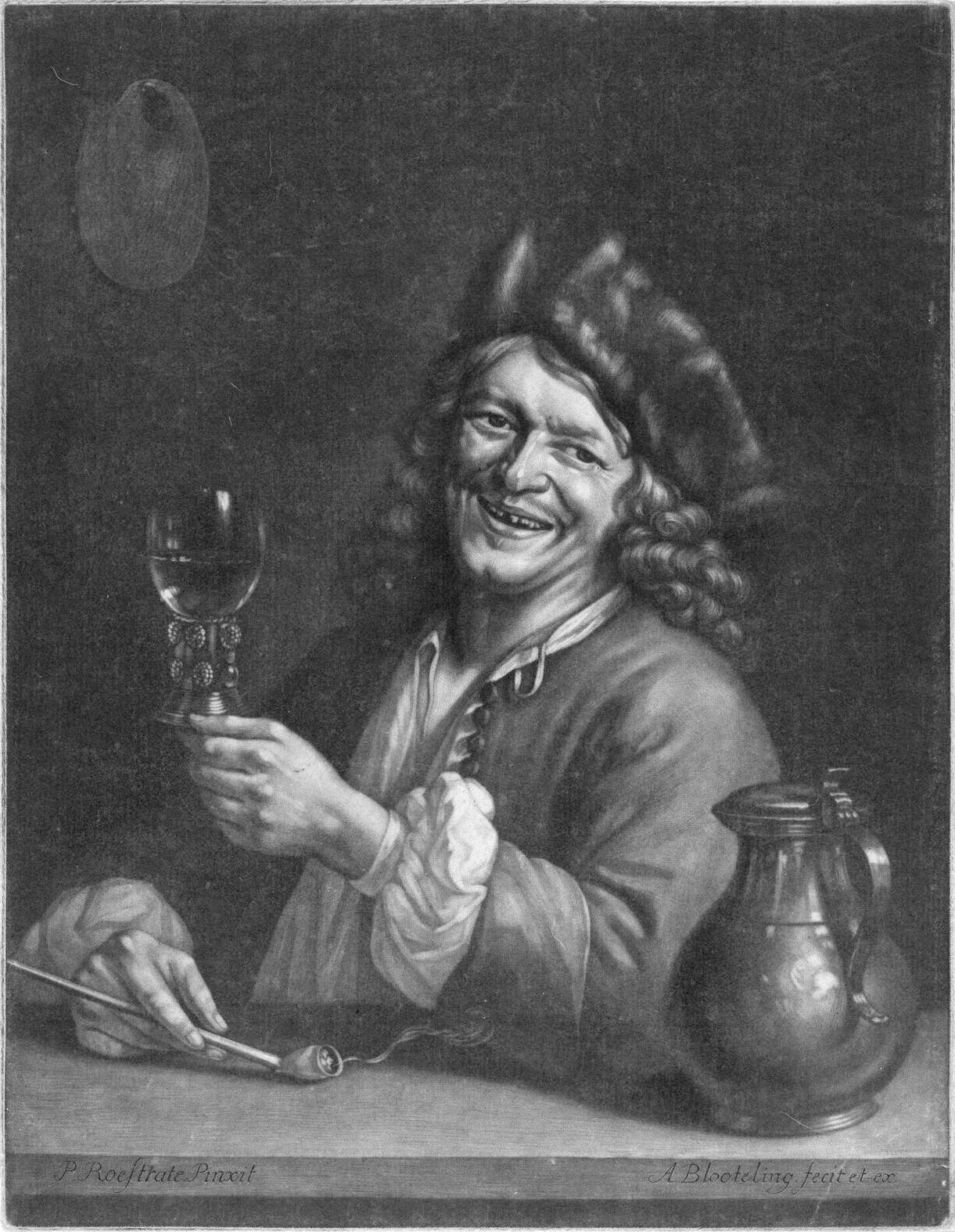 Pieter Gerritsz. van Roestraeten, Haarlem 1629/1630 - Londen 1698 mezzotint 27.4 x b. 21.4 mm ca. 1660 -1690 inscribed b.l.: P Roestrate Pinxit inscribed b.r.: A Blooteling. fecit et ex